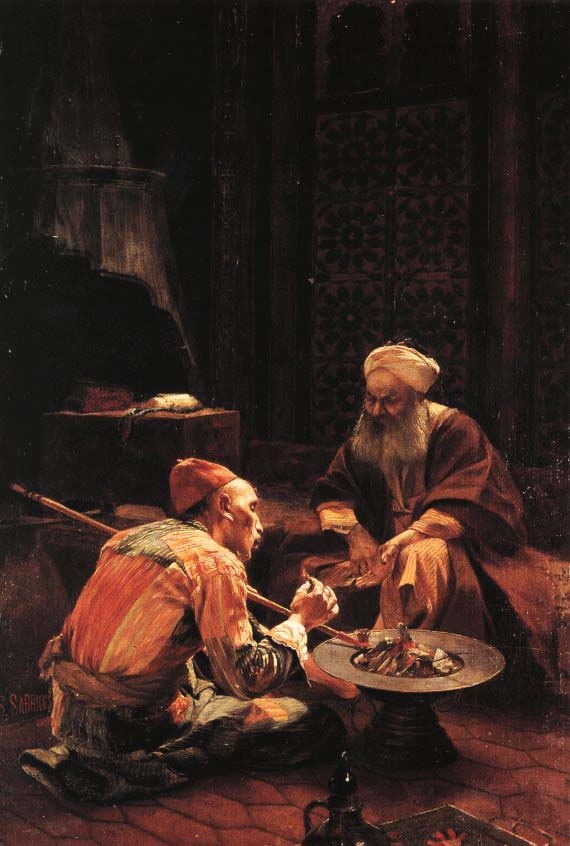 Pipe lit, painting by Symeon Sabbides